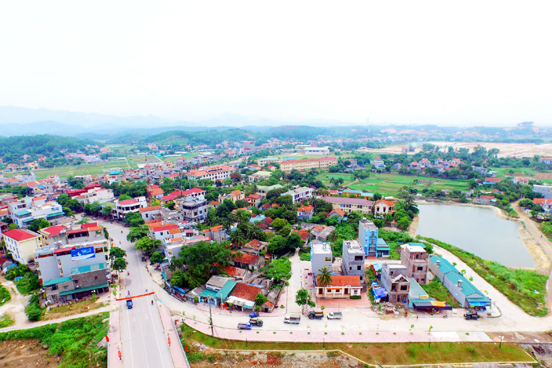 A view of Trới town seen from above